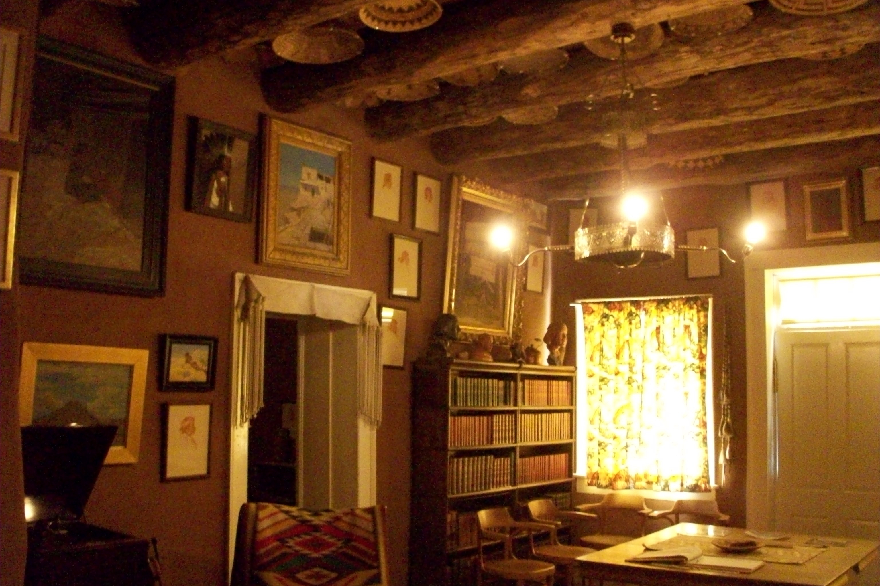 Interior of residential area of the Trading Post which may be visted as part of NPS guided tours